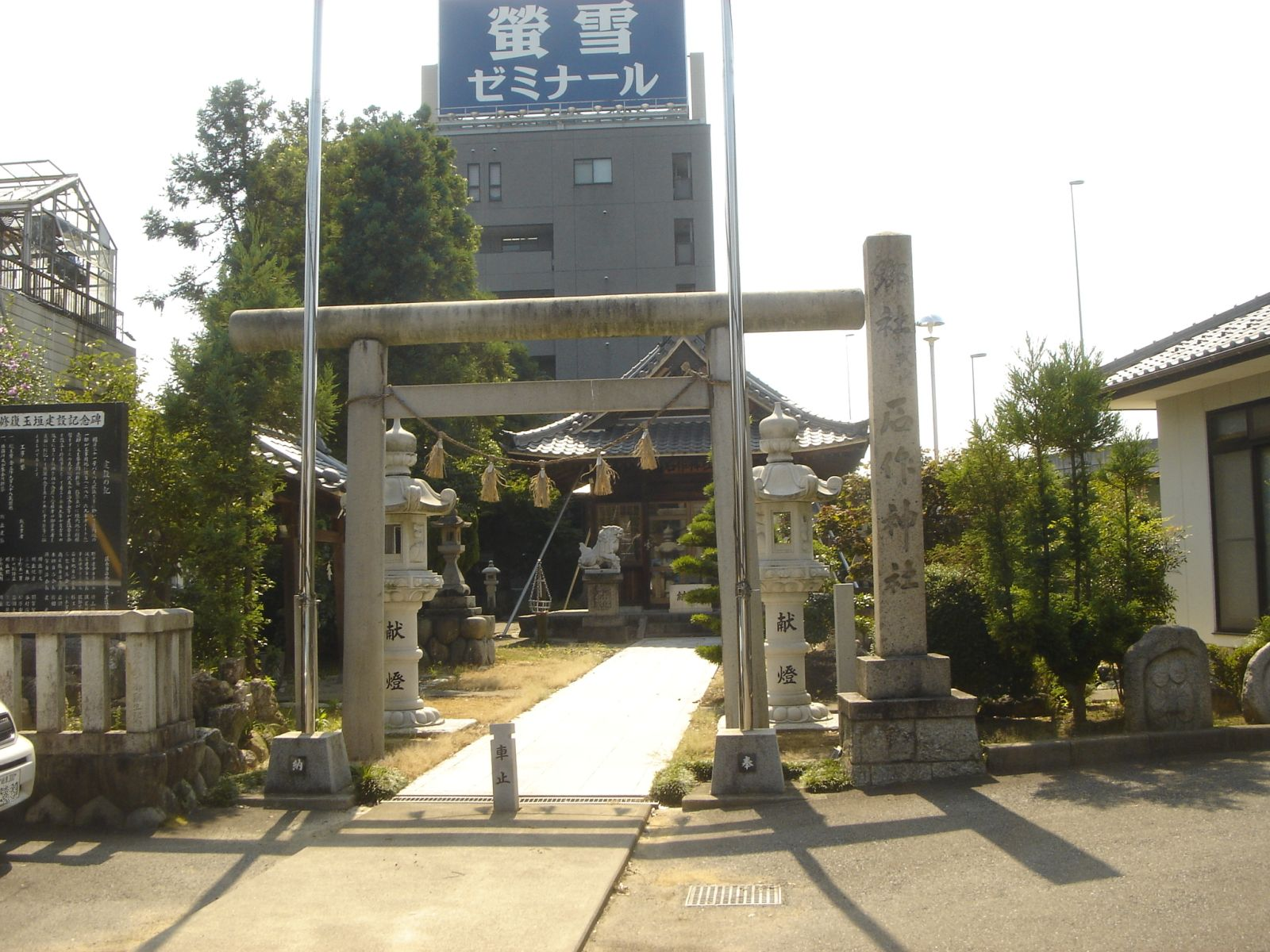 Ishizukuri Jinja(Shrine)in Ginan Town